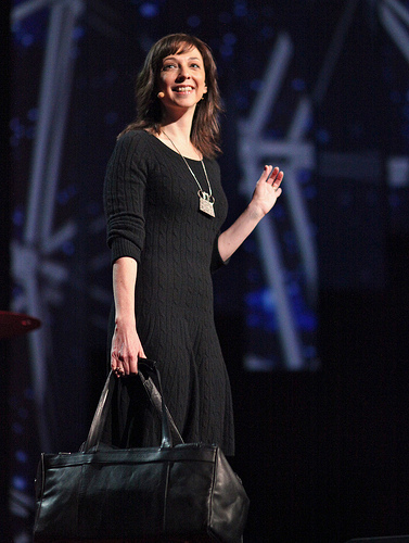 Photograph of author Susan Cain delivering a TED talk, taken on February 28, 2012 using a Canon EOS 5D Mark II by flickr user "jurvetson" (Name: Steve Jurvetson)